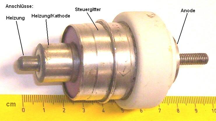 Small high frequency triode vacuum tube (Soviet Union, ca. 1978) for use at UHF frequencies, probably from FM radio board. This design, sometimes called a "lighthouse tube", is used to reduce inductance and capacitance of leads to electrodes in order to prevent instability and parasitic oscillations which limit the frequency of ordinary vacuum tubes. Terminology: Kathode - cathode Heizung - heater (filament) Steuergitter - control grid Anode - plate